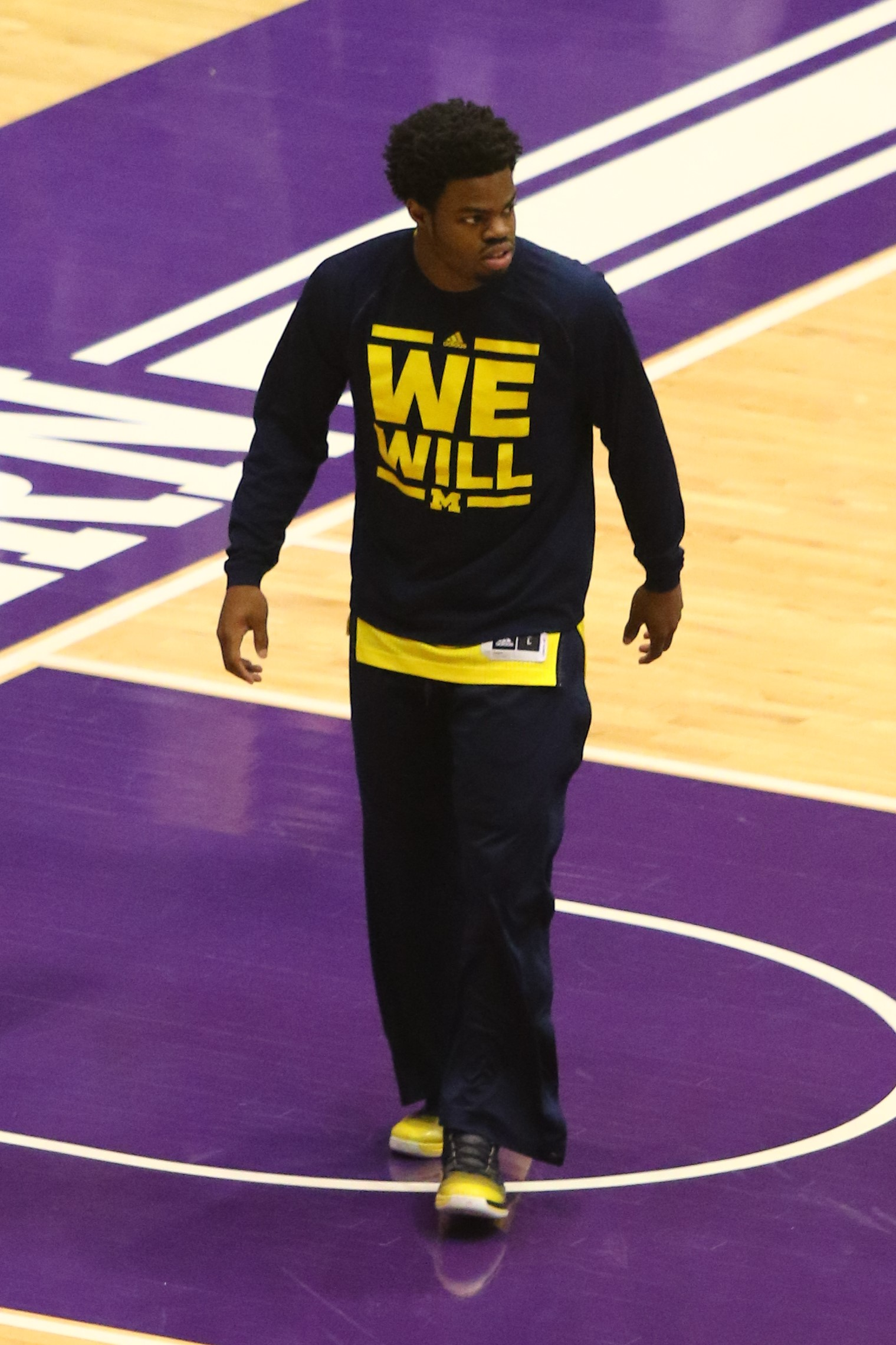 Derrick Walton for the w:2014–15 Michigan Wolverines men's basketball team at Welsh-Ryan Arena